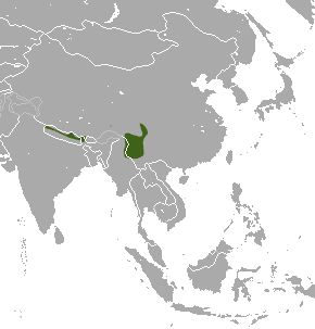 Hodgsons's Brown-toothed Shrew (Episoriculus caudatus) range